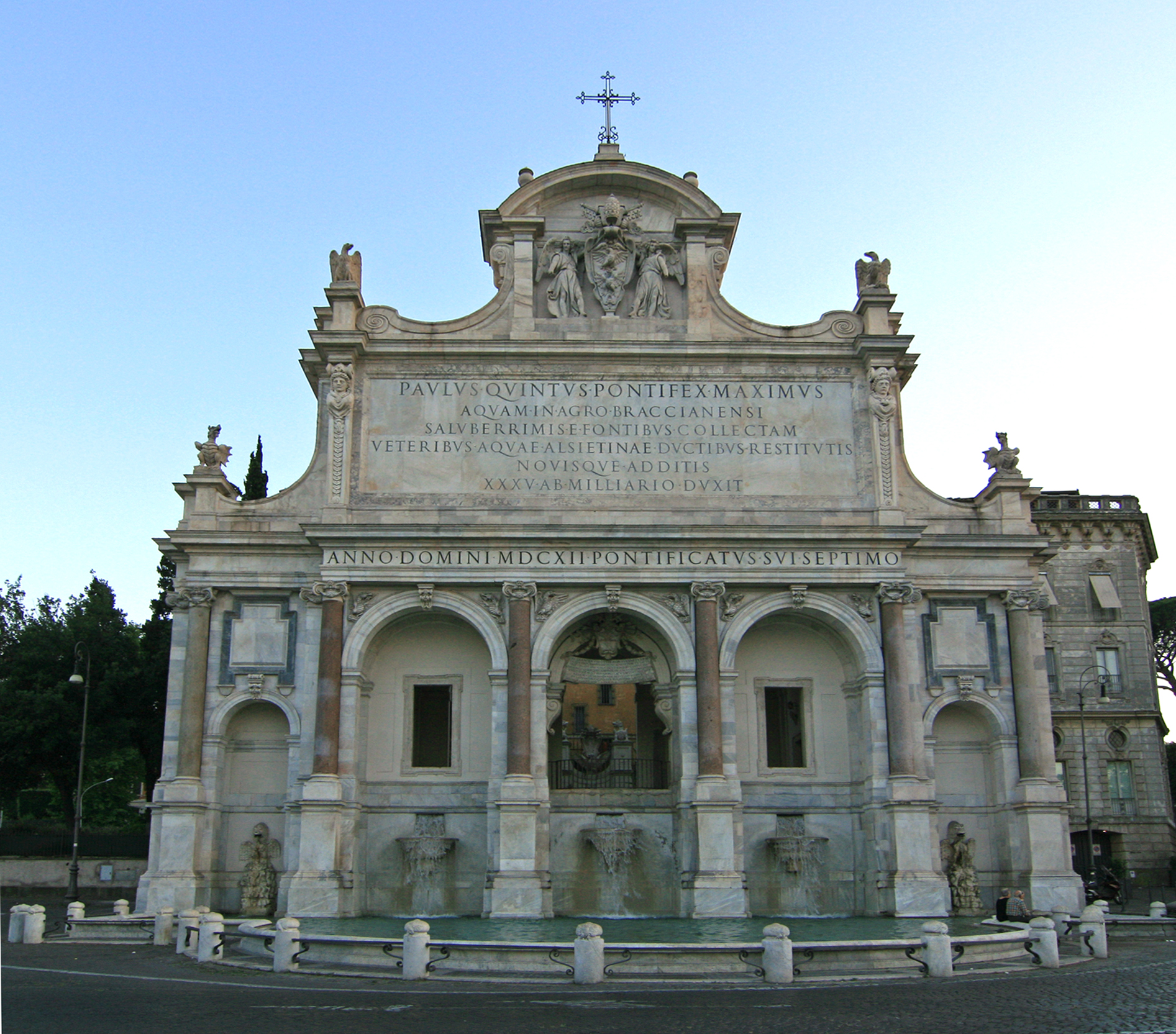 Fontana Paola, Gianicolo, Rome. Evening view.